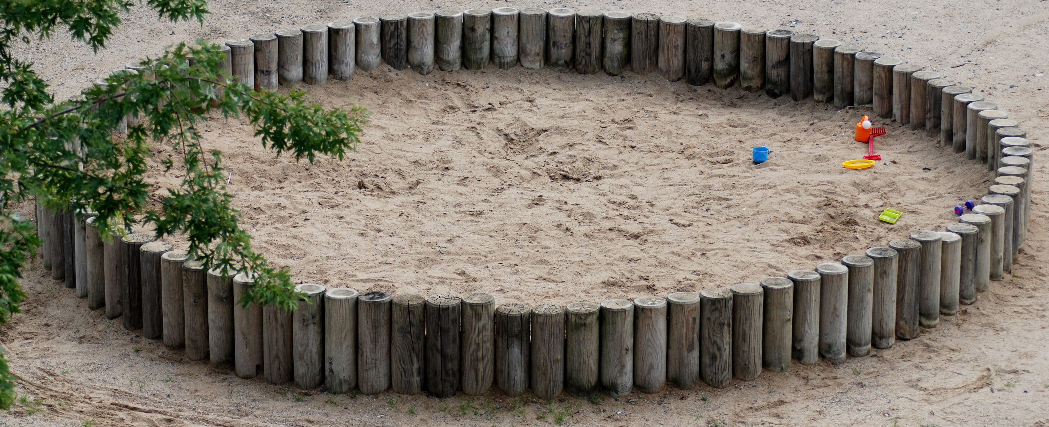 Sandbox with toys